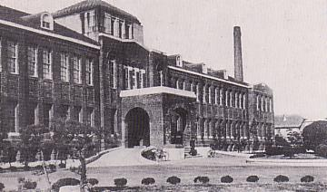 Keisho-Nan(Gyeongsangnam) Provincial Office